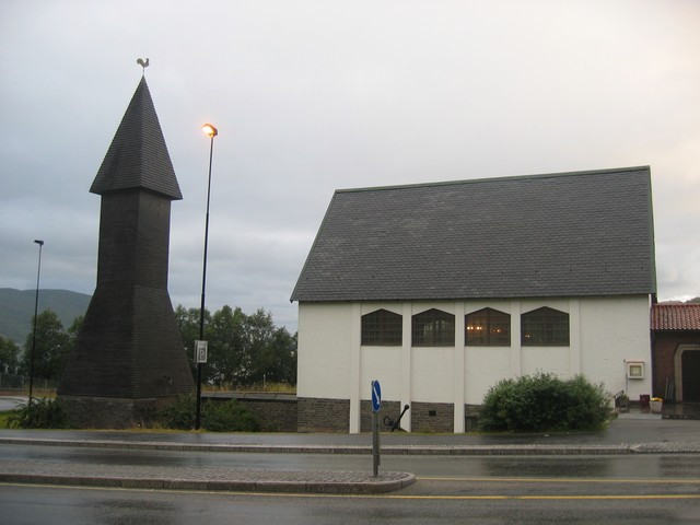 Seamans Church in Narvik